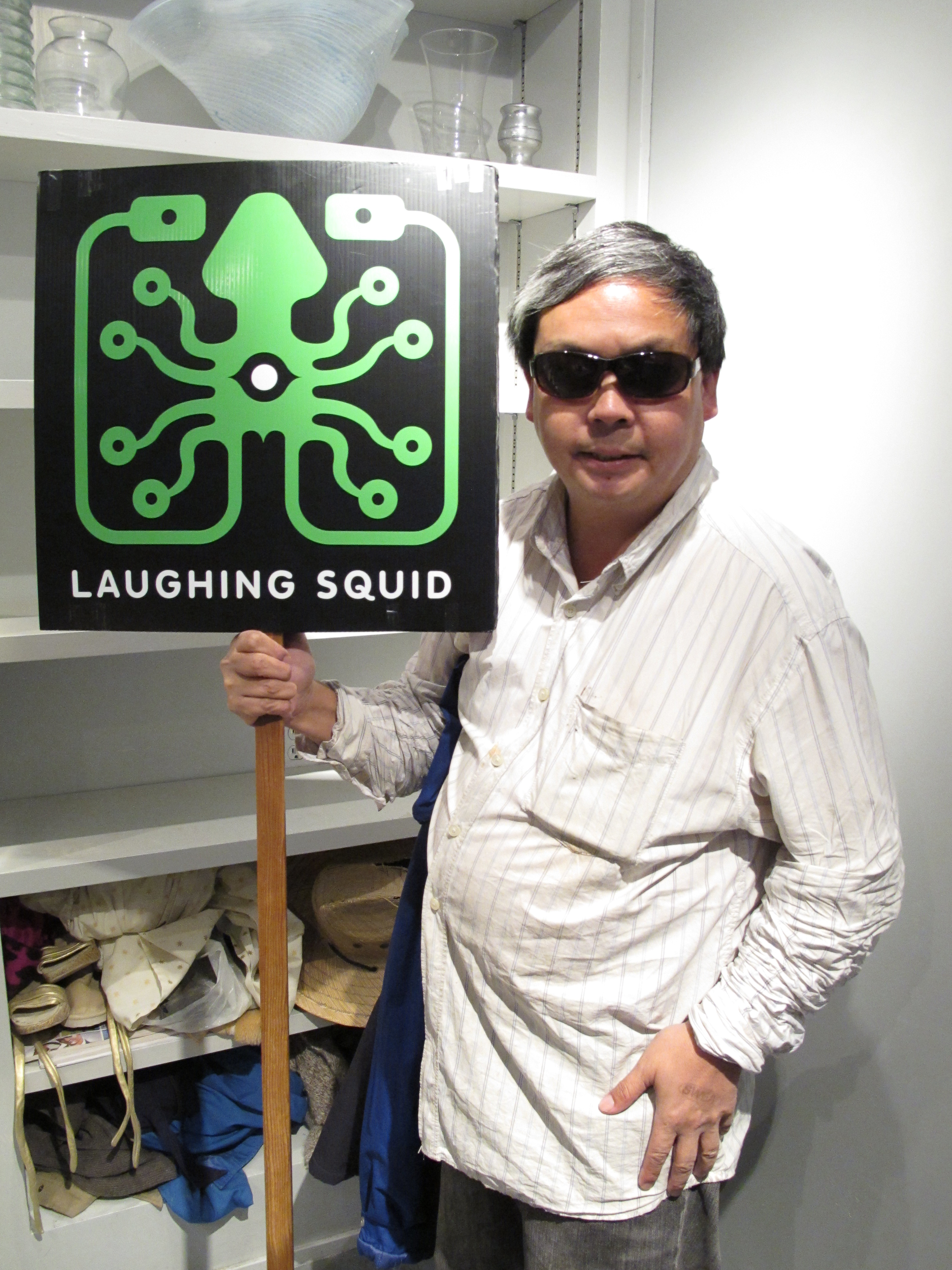 Laughing Squid sponsored the back of Frank Chu's sign from 2009 to 2013.